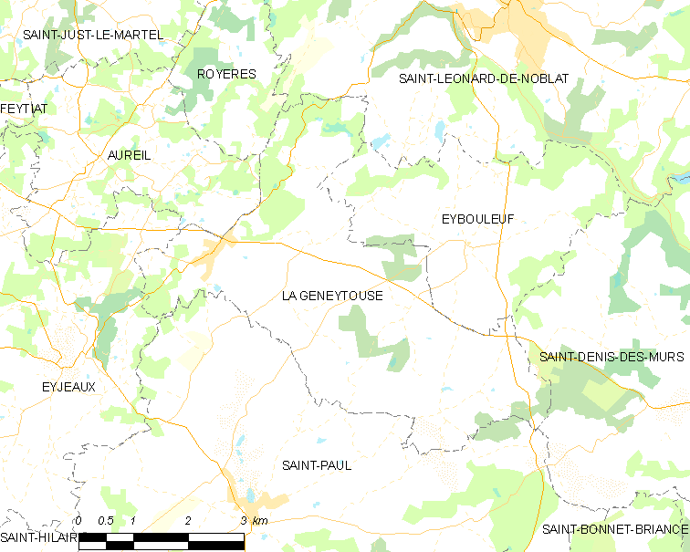 Map of French municipality La Geneytouse